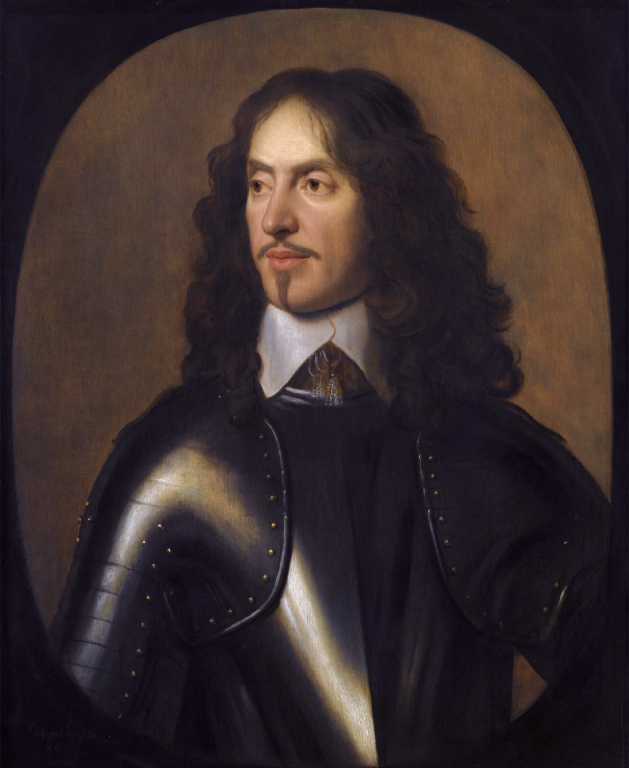 William, 1st Baron and Earl of Craven (1608-1697)